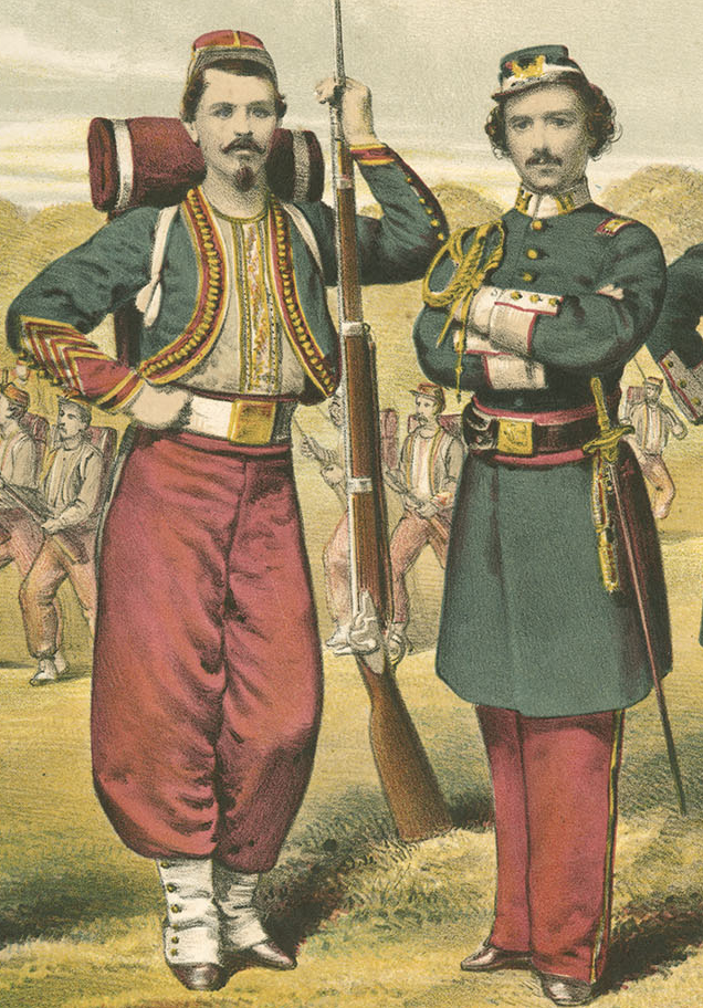 "This song sheet cover celebrates the Zouave Cadets that Elmer Ellsworth organized in Chicago in 1859–60. Ellsworth is shown second from the right. The cadets became popular for their precision drills and colorful uniforms. In August 1860, they visited Washington and were invited to perform on the White House lawn for President James Buchanan and his much-admired niece, Miss Harriet Lane." (